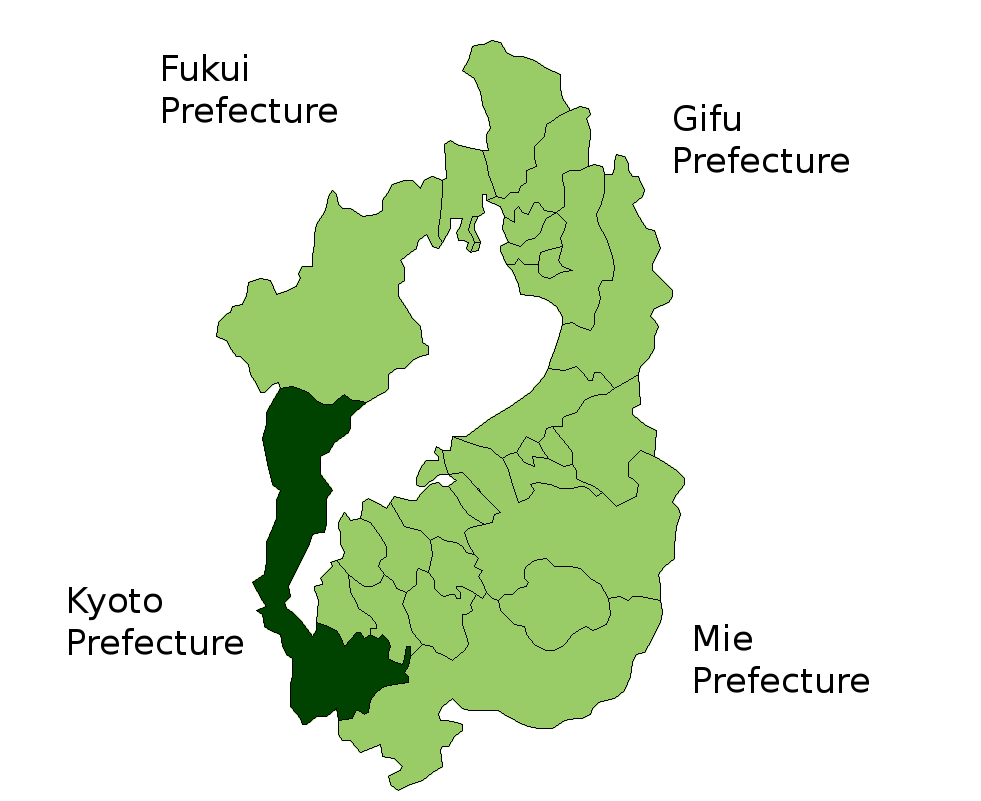 Location Map of Otsu in Shiga Prefecture, Japan